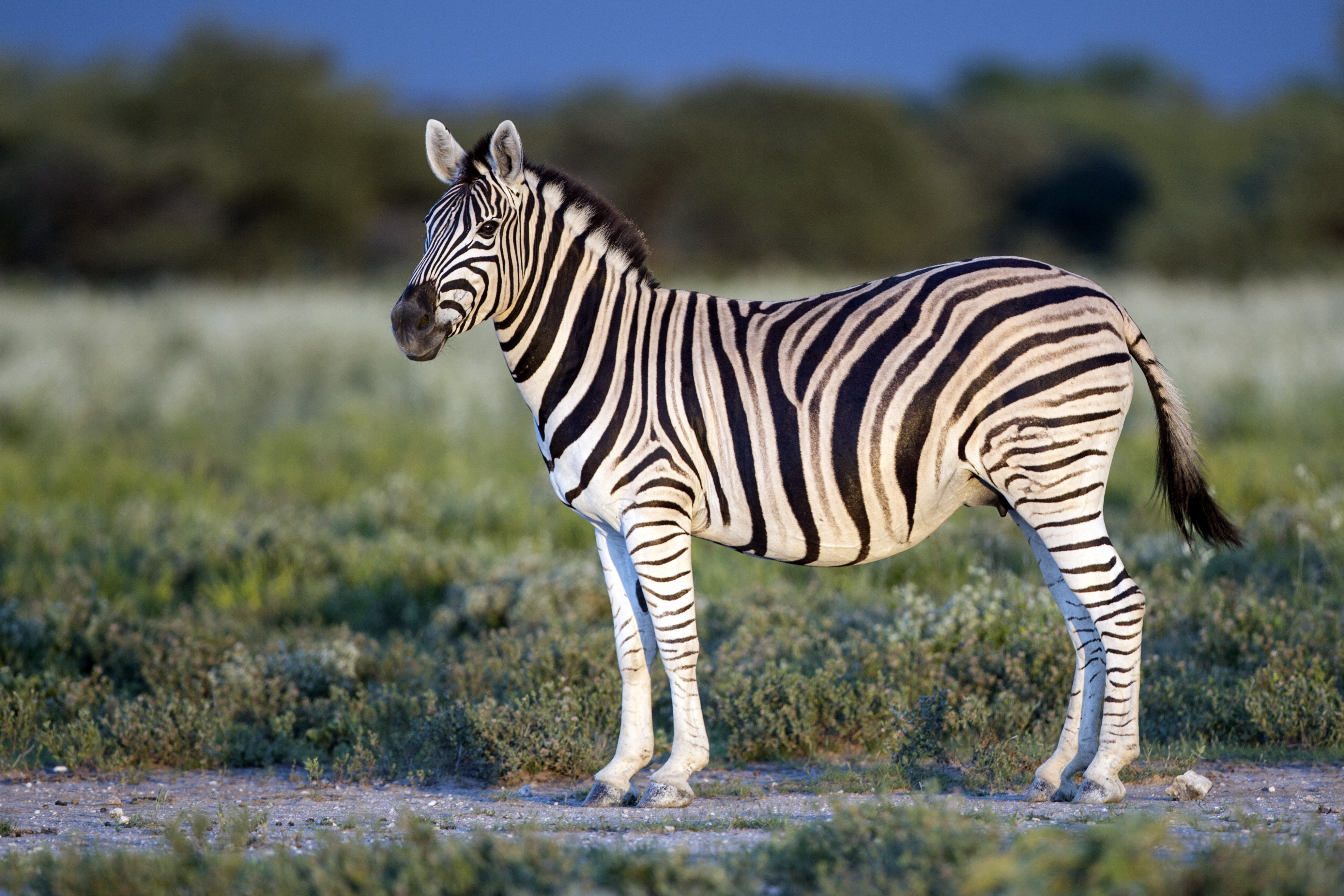 Plains zebra in Etosha National Park, Namibia